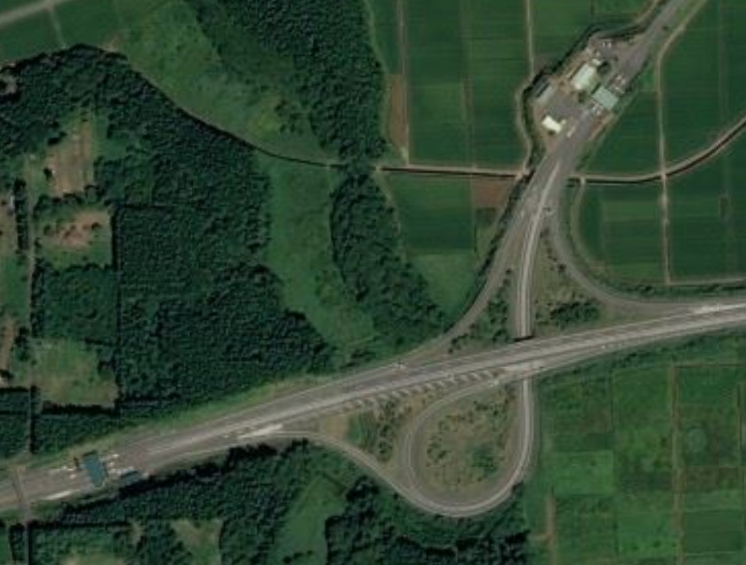 Satellite view